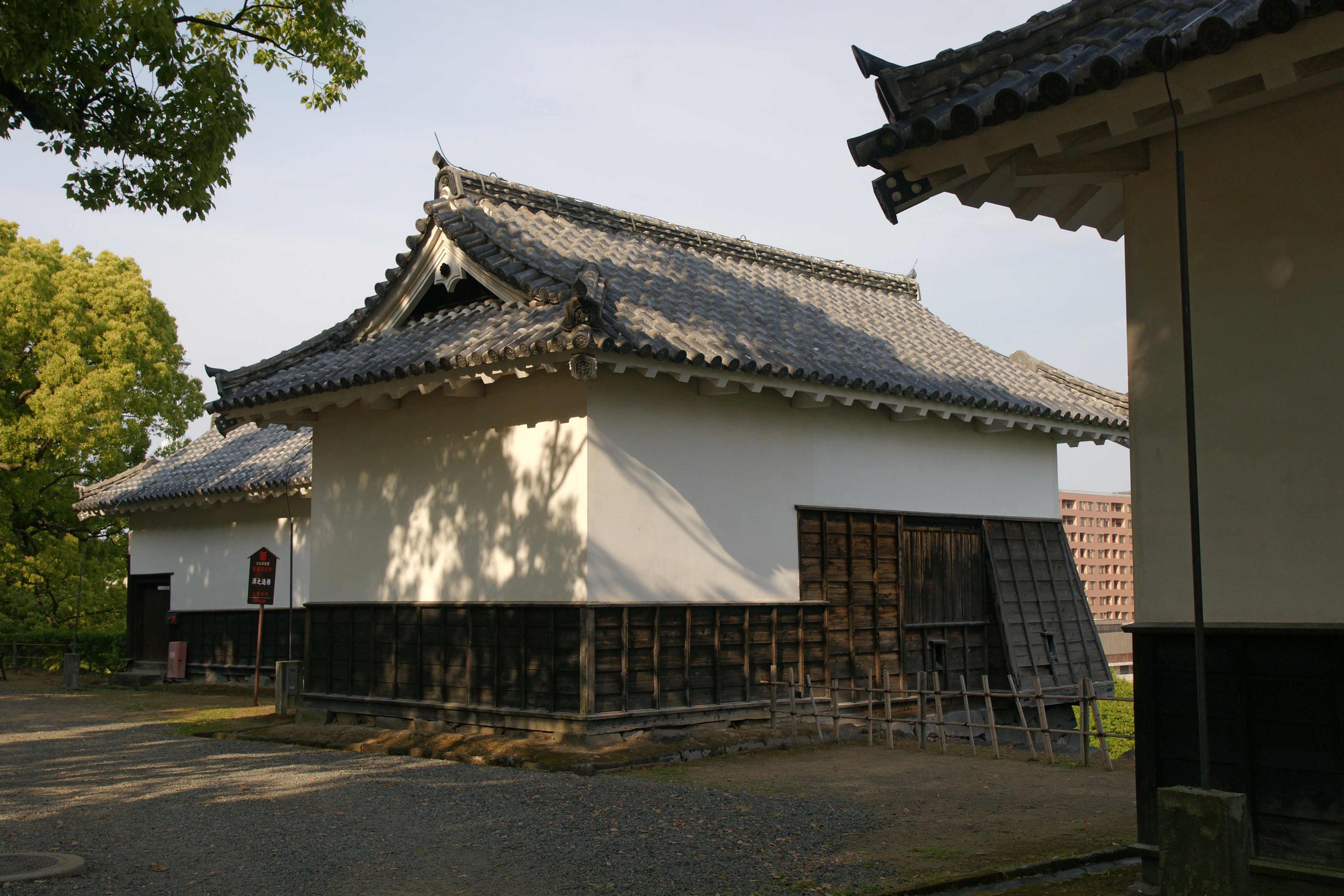 Kumamoto Castle, Kumamoto, Kumamoto prefecture, Japan